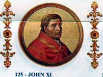 Portrait of Pope John XI in the Basilica of Saint Paol Outside the Walls, Rome